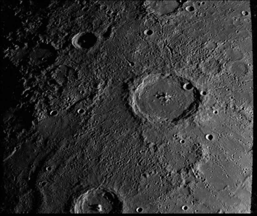 Image Number: 0000118GMT: 1974:088:22:24:32Start Time: 1974-03-29T22:24:32.264ZLatitude: 56.41° to 71.93°Longitude: 161.48° to 185.69°Resolution (meters per pixel): 537Incidence Angle: 83.11°Emission Angle: 44.3°Phase Angle: 77.25°Verdi crater near center, part of Brahms in lower center. North is up.